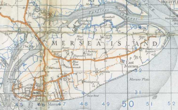 Reproduced from the 1940 OS map